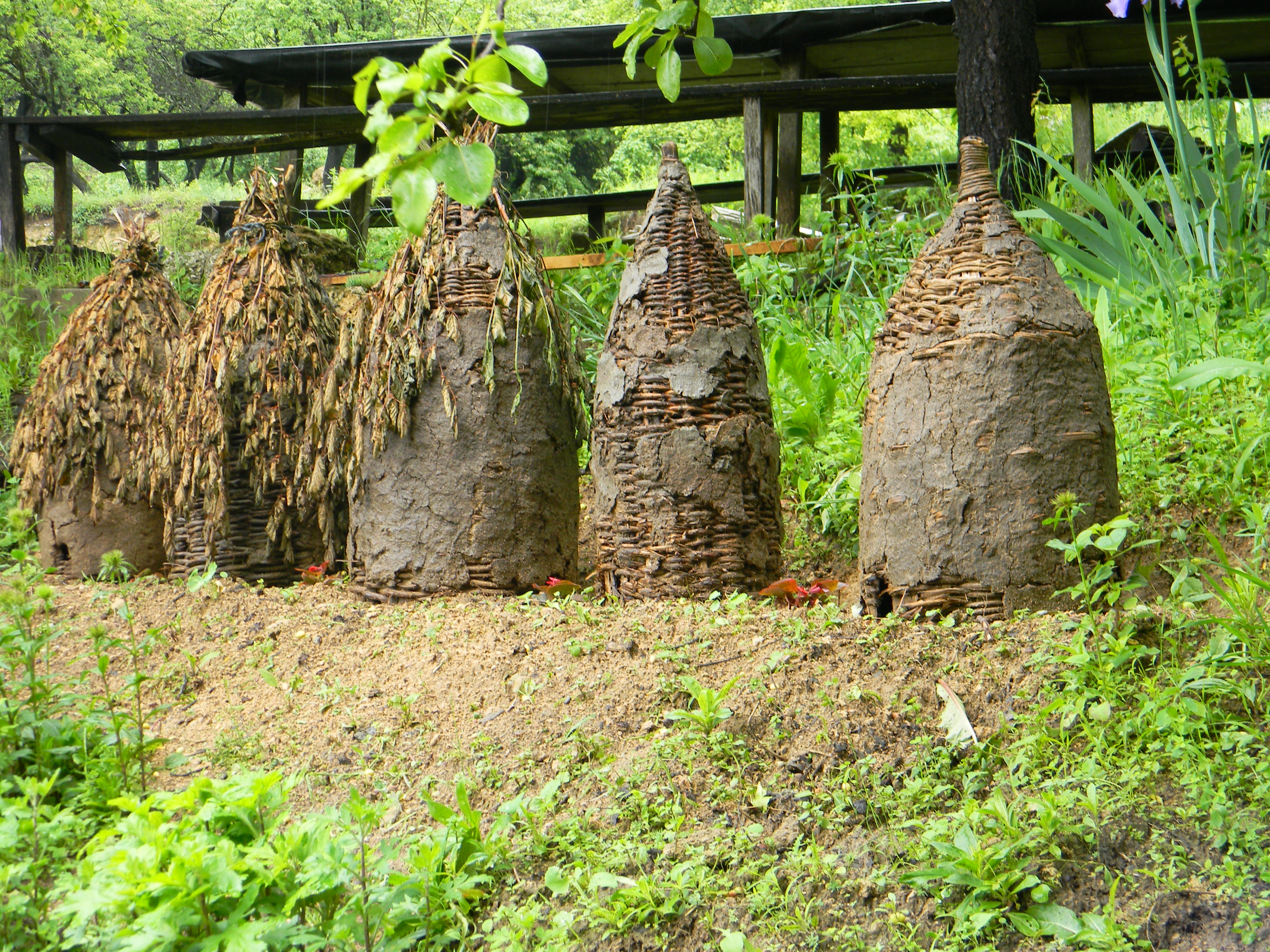 Old style man made beehives from Stenjevac, Serbia